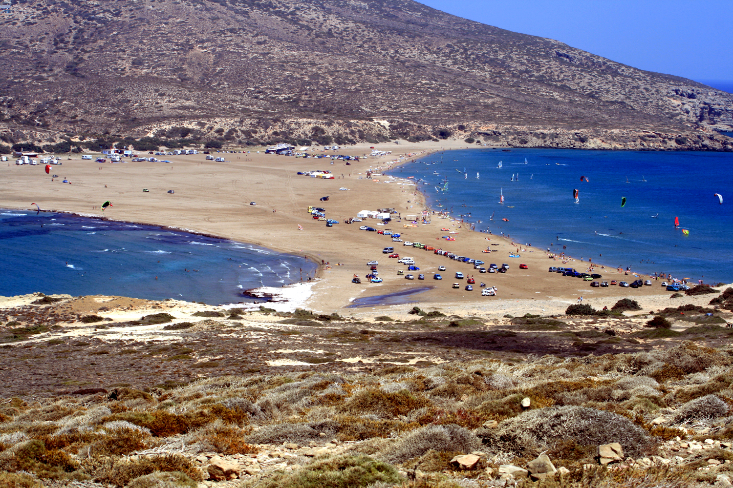 Prassonissi beach, Rhode Island pláž Prassonissi na ostrově Rhodos Date=August 2007 Author= Karelj